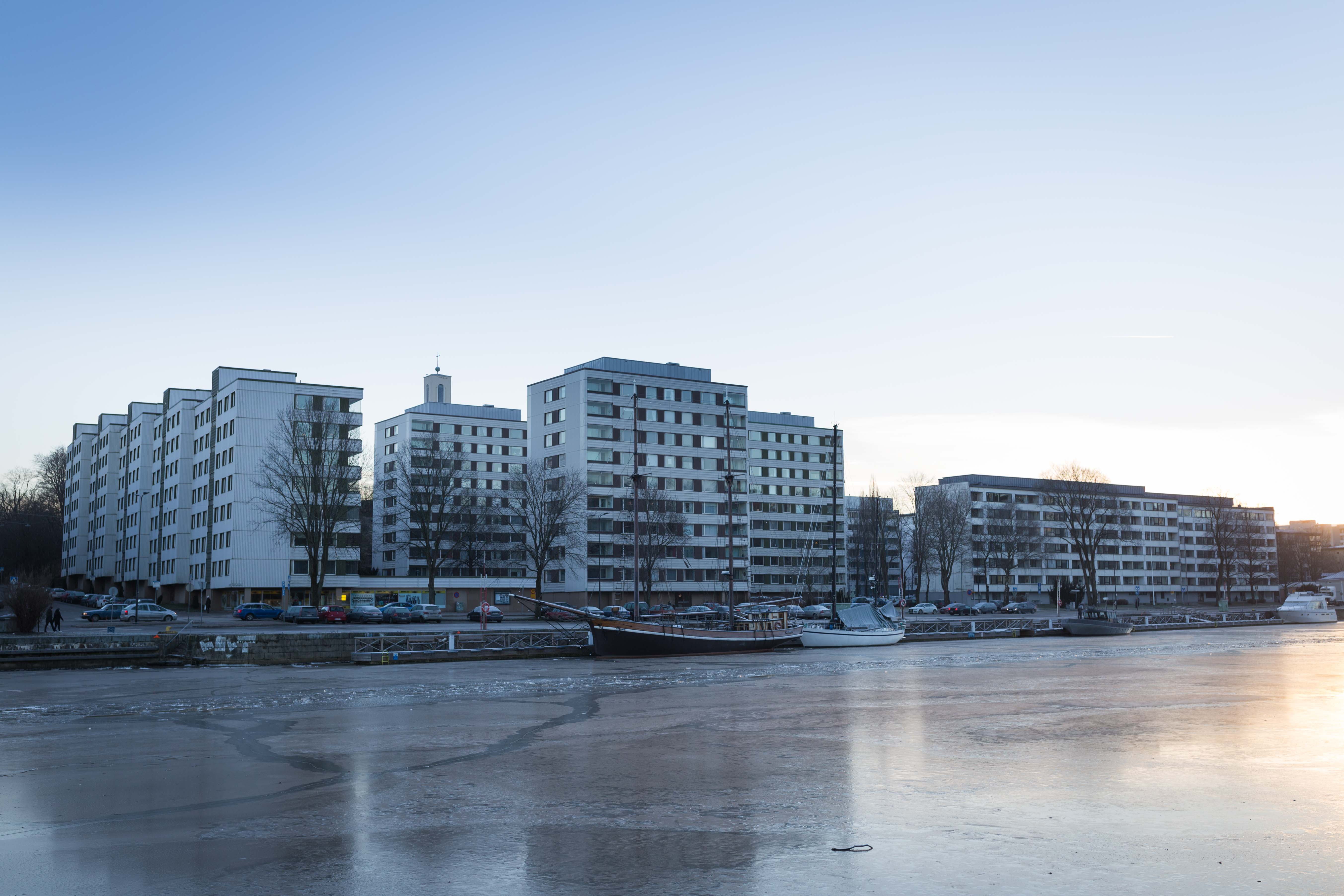 Sokerinranta, Turku, in December 2016.